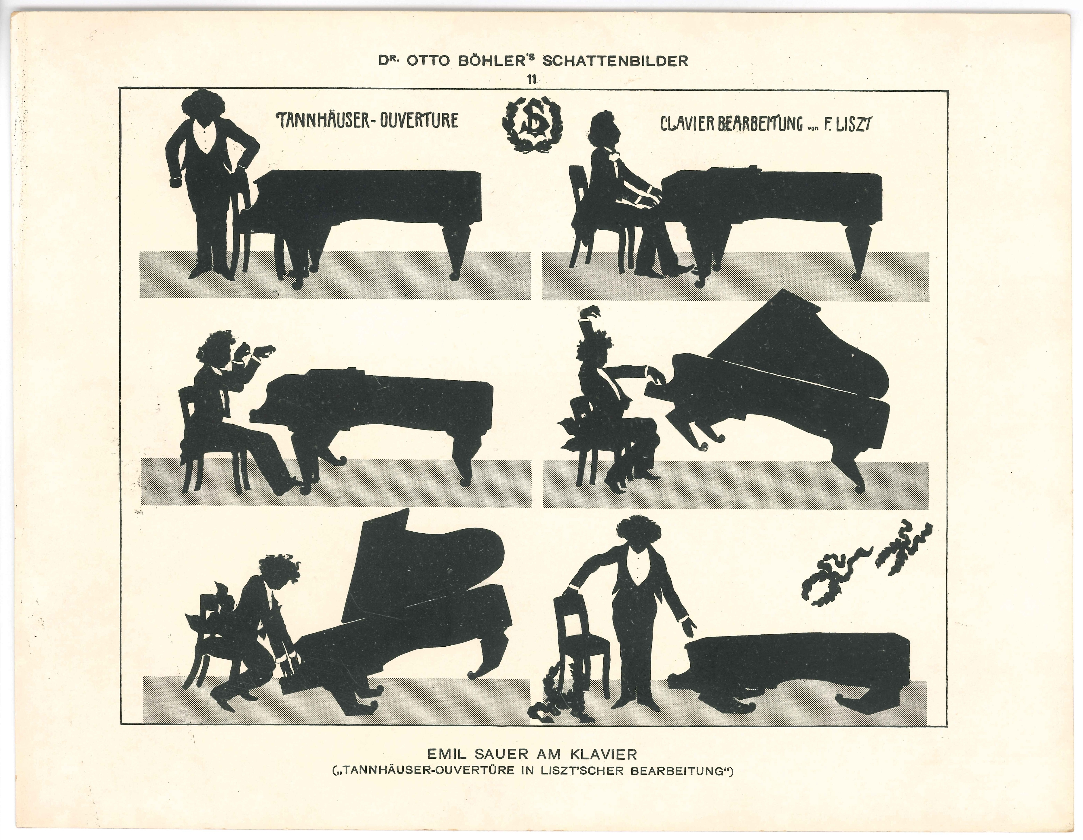 Emil von Sauer (1862–1942), silhouette 20 x 26 cm; photo of Böhler´s silhouette printed on thick card